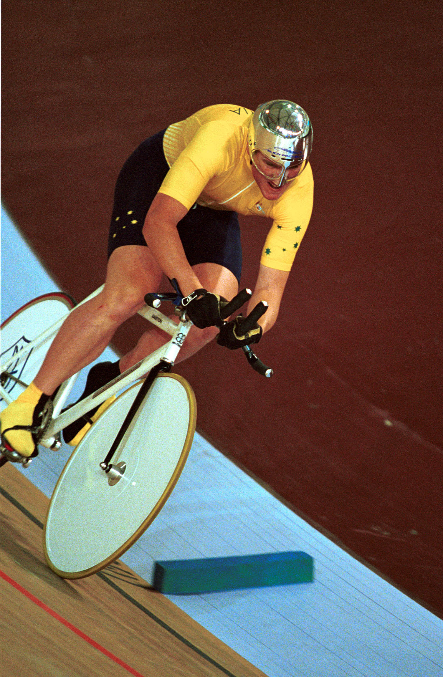 Action shot of Australian track cyclist Matthew Gray during 2000 Sydney Paralympic Games race